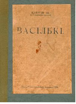 Jadvihin Š.. Васількі